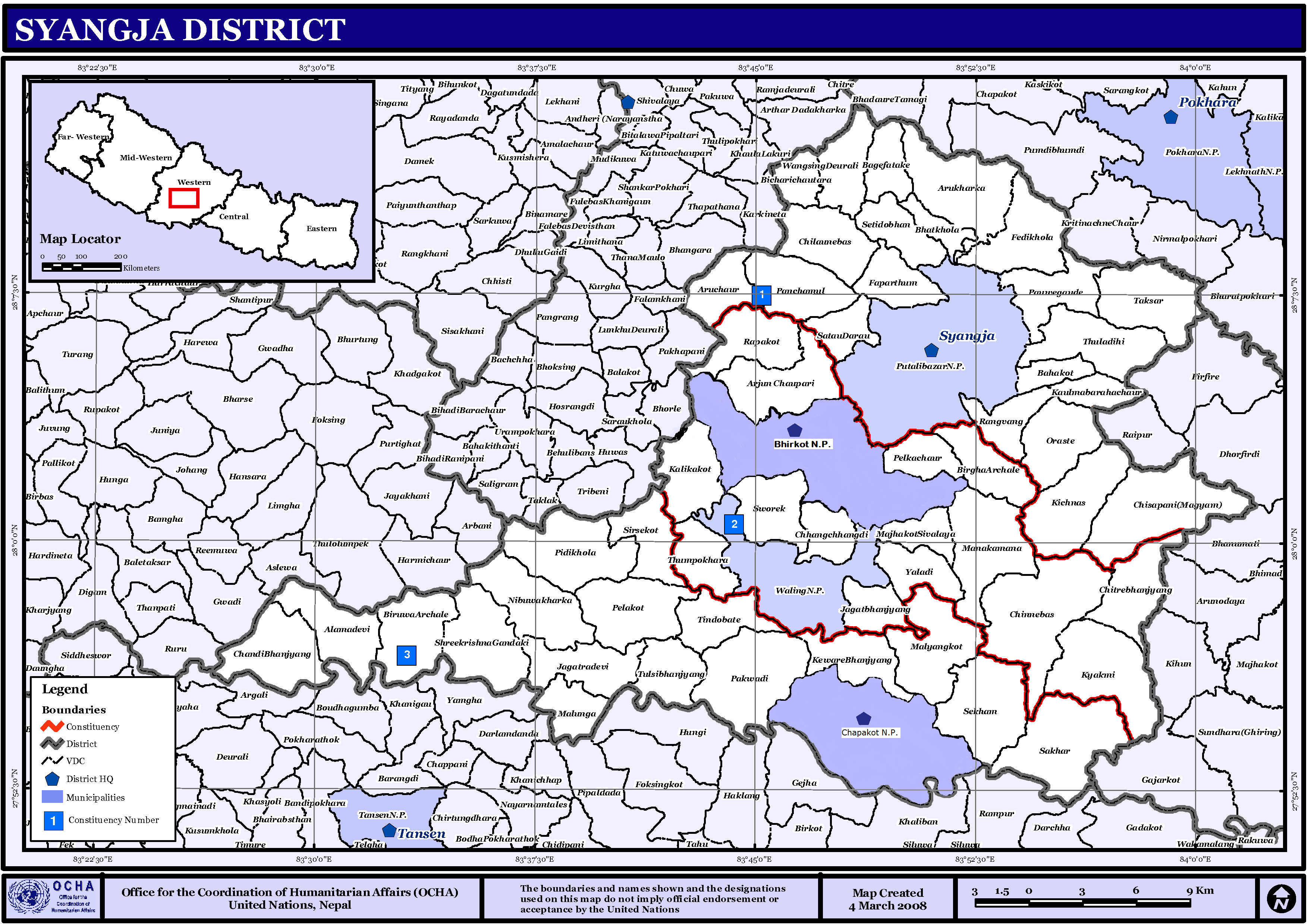 Map displaying Village Development Committees in Syangja District, Nepal